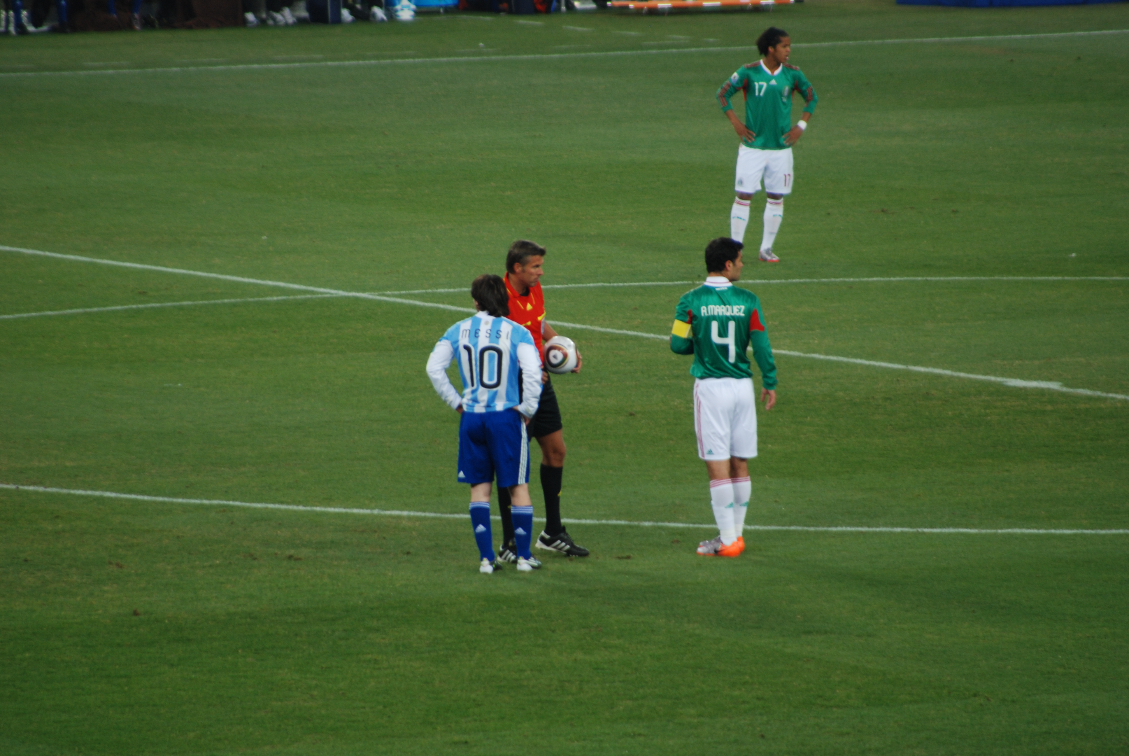 Argentina and Mexico match at the FIFA World Cup June 27th, 2010.